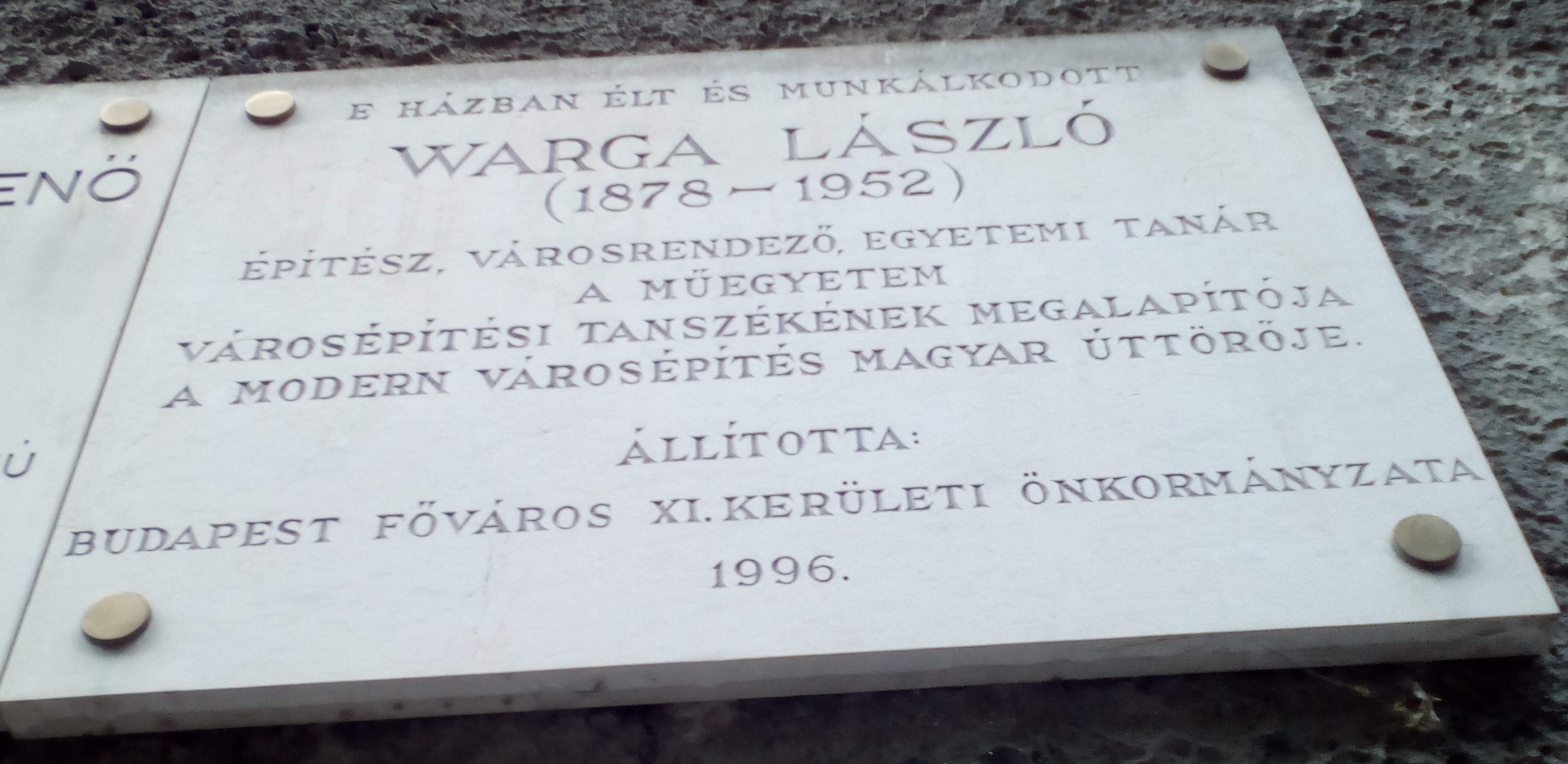 Commemorative plaque of László Warga in Budapest District XI, Mészöly Street No 4.